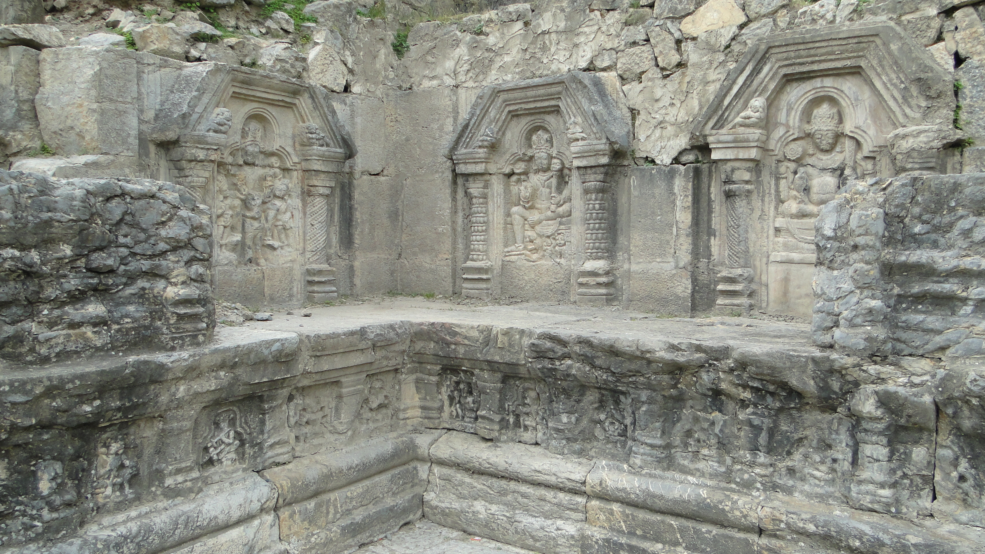 Martand Sun Temple was dedicated to Hinduism's Surya (Sun) god and is now in ruins. The ruins of the temple are located near Anantnag in Indian state of Jammu & Kashmir. Before the invasion by Islamic armies from Persia, the length and breadth of the Kashmir Valley has a network of Hindu Temples. For example - Shankaracharya Temple, Payar Temple, Martand Temple (shown), Buniyar Temples, Laduv Temple, Avantisvara Temple, Avantiswami Temple, Taper Temple, Manasbal Temple, Mamal Temple, Devsar Temple, Garur Temple, Sugandesha Temple, Narag Temples, Narasthan Temple and others. Source: Shah, "UNIQUE FEATURES OF ANCIENT TEMPLE ARCHITECTURE OF KASHMIR", Review of Research, March 2013, Vol. 2 Issue 6, Special section p 1-3. The Avantipur temples and the Martand Temple are an attraction for people interested in history and archaeology. Their style is unique, being heavily influenced by the Buddhist Gandhara school of art, which in turn was influenced by Greek and Hellenistic art and architecture. The Martand temple had a colonnaded courtyard, with a shrine in its centre, which was 220 feet long and 142 feet broad. It was surrounded by 84 small shrines. The temple was destroyed, burnt then razed to the ground by Islamic Sultan Sikander in 15th century. His violence against temples won him the sobriquet of but-shikan or idol-breaker. In Kashmir, he was responsible for the desecration and destruction of numerous temples, caityas, viharas, shrines, hermitages and other holy places of the Hindus and Buddhists. He banned dance, drama, music and iconography as aesthetic activities of the Hindus and Buddhists, finding them as heretical and un-Islamic. Despite his and his army's best efforts, many of the bas-reliefs were too difficult to destroy. They were carved into the mountain stone, and his army's tools failed to chip them away. Above are some of those damaged but still surviving bas reliefs of Hindu deities.